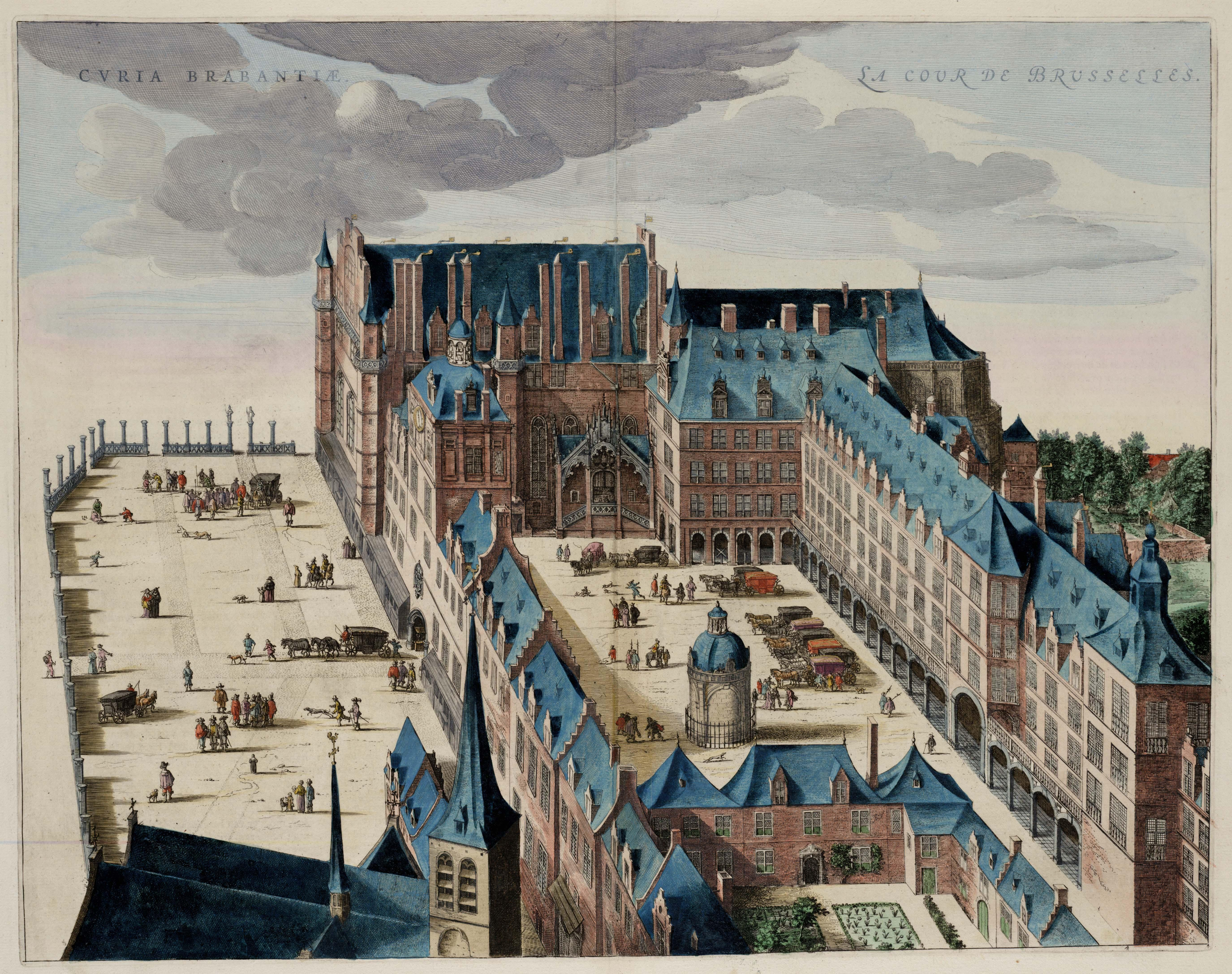 The Palace on the Koudenberg.